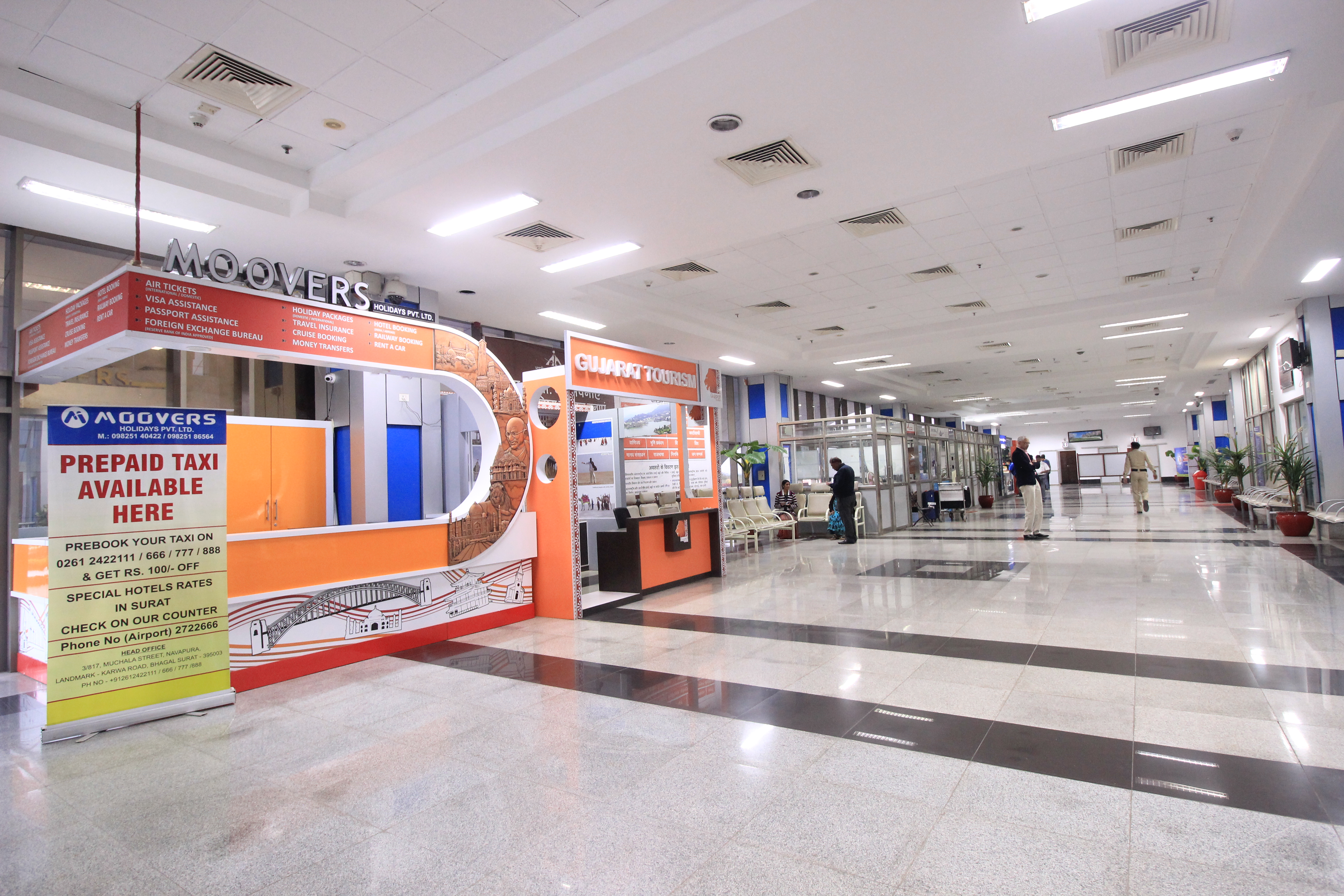 Surat Airport Lounge Area